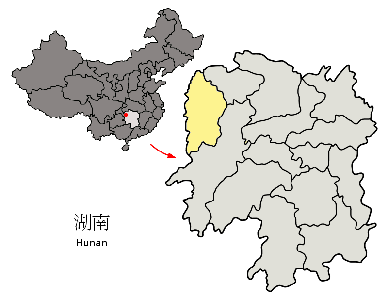 Location of Xiangxi Prefecture (yellow) within Hunan Province of China Map drawn in december 2007 using various sources, mainly : Hunan Province administrative regions GIS data: 1:1M, County level, 1990 Hunan Counties map from